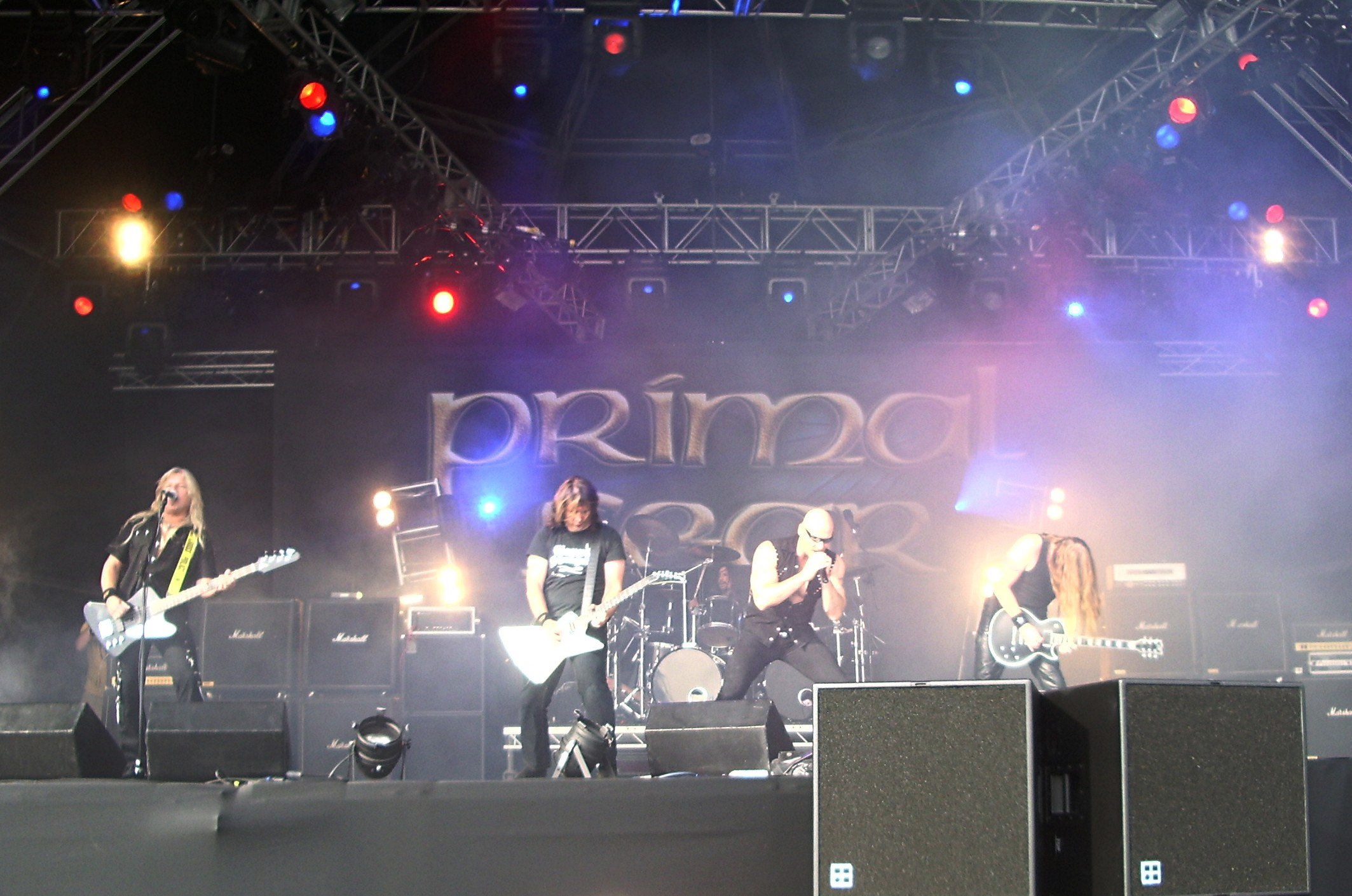 Primal Fear at Bloodstock Open Air 2008